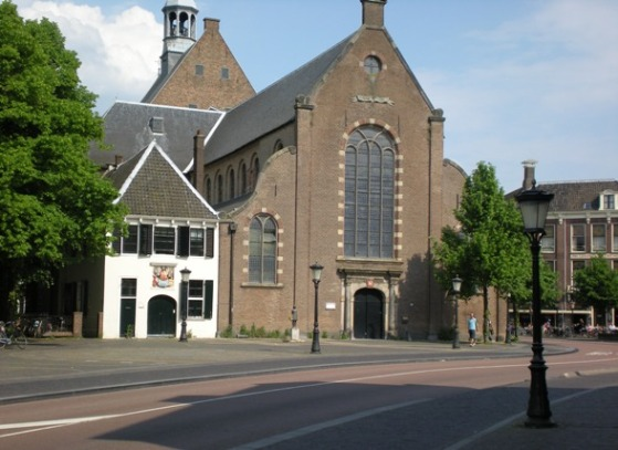 Janskerkhof (Utrecht)